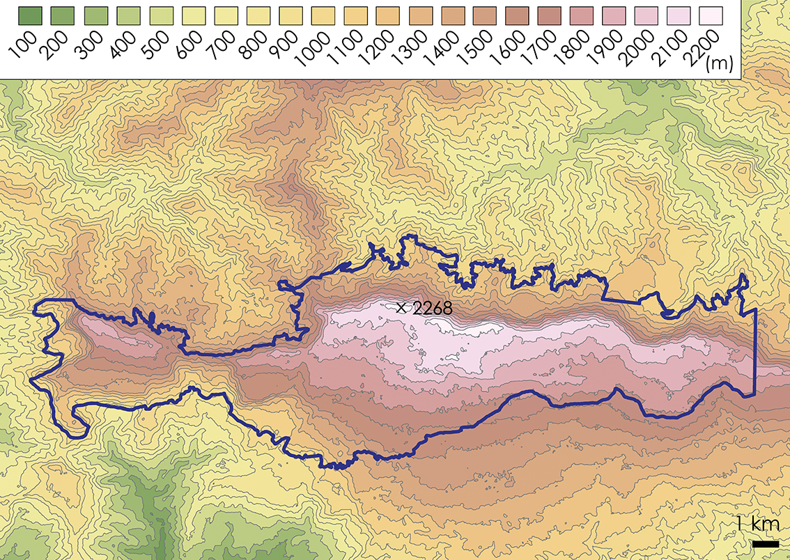 La Visite topographic map detail